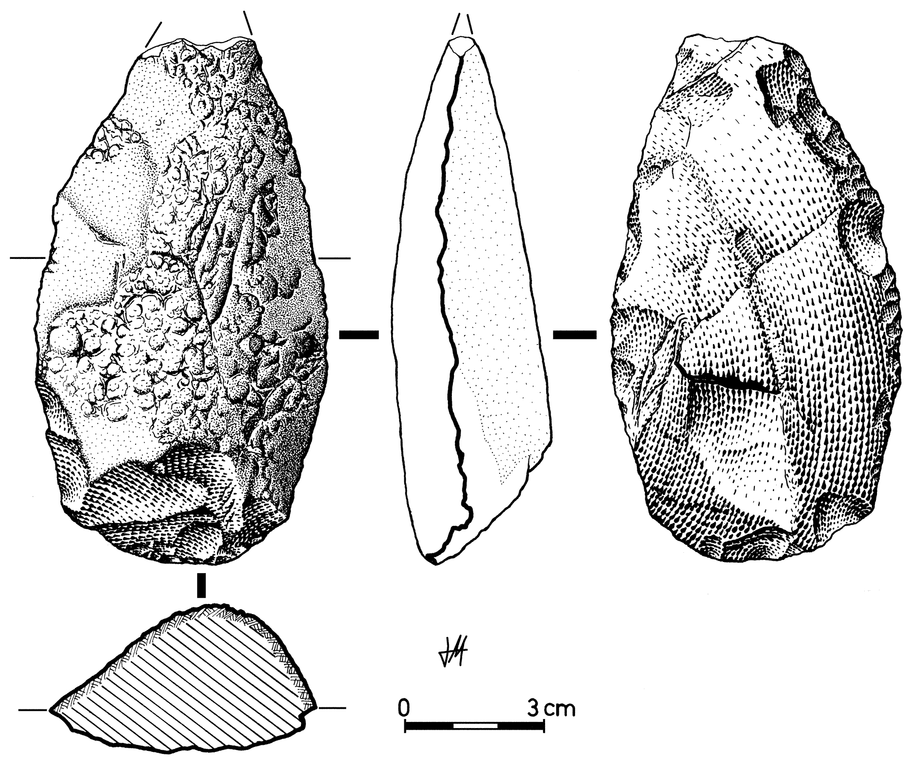 Acheulean hand axe that proceeds from a superficial site in the Zamora province (Spain), in the valley of Douro river.